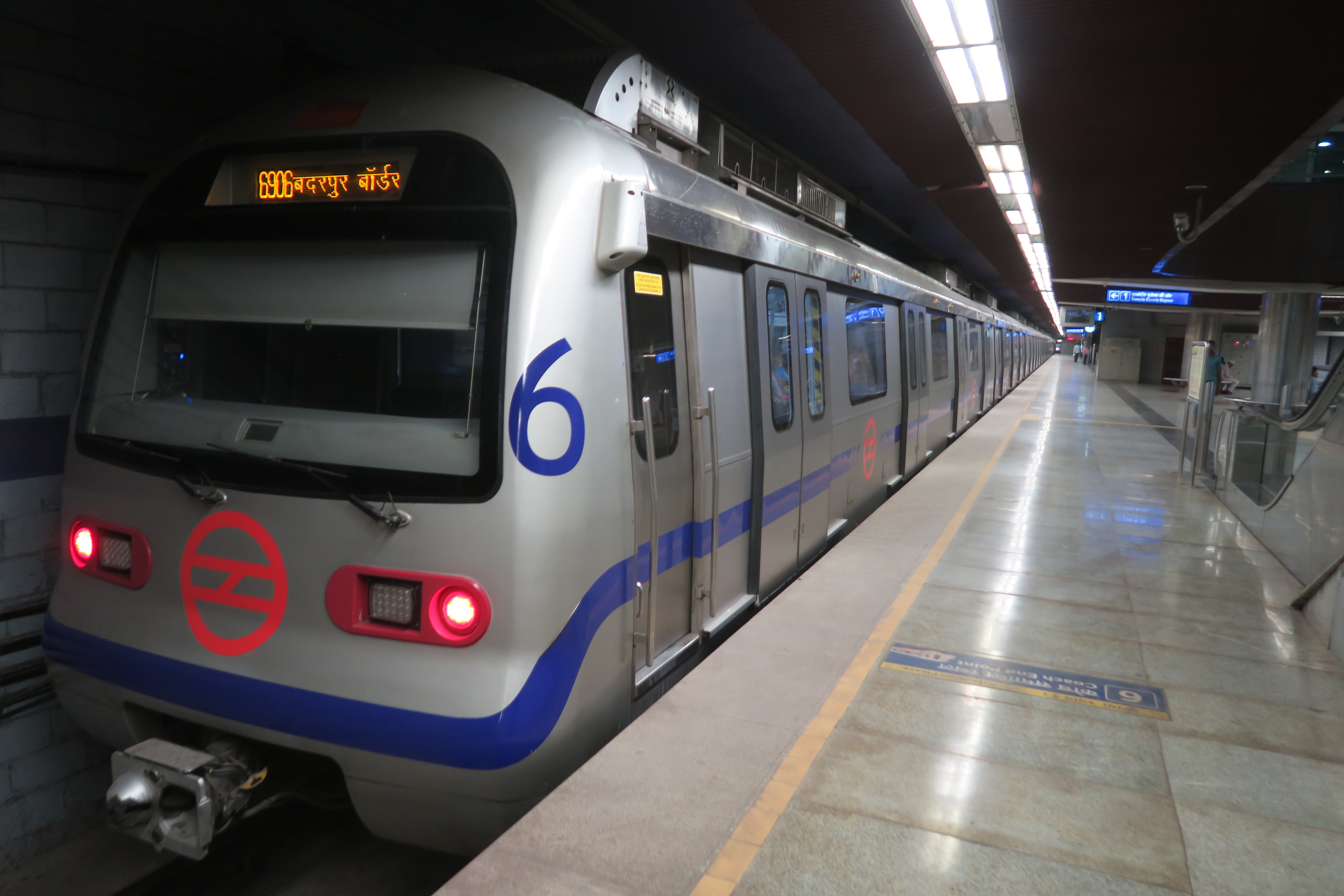 Coaches of Delhi Metro violet line.